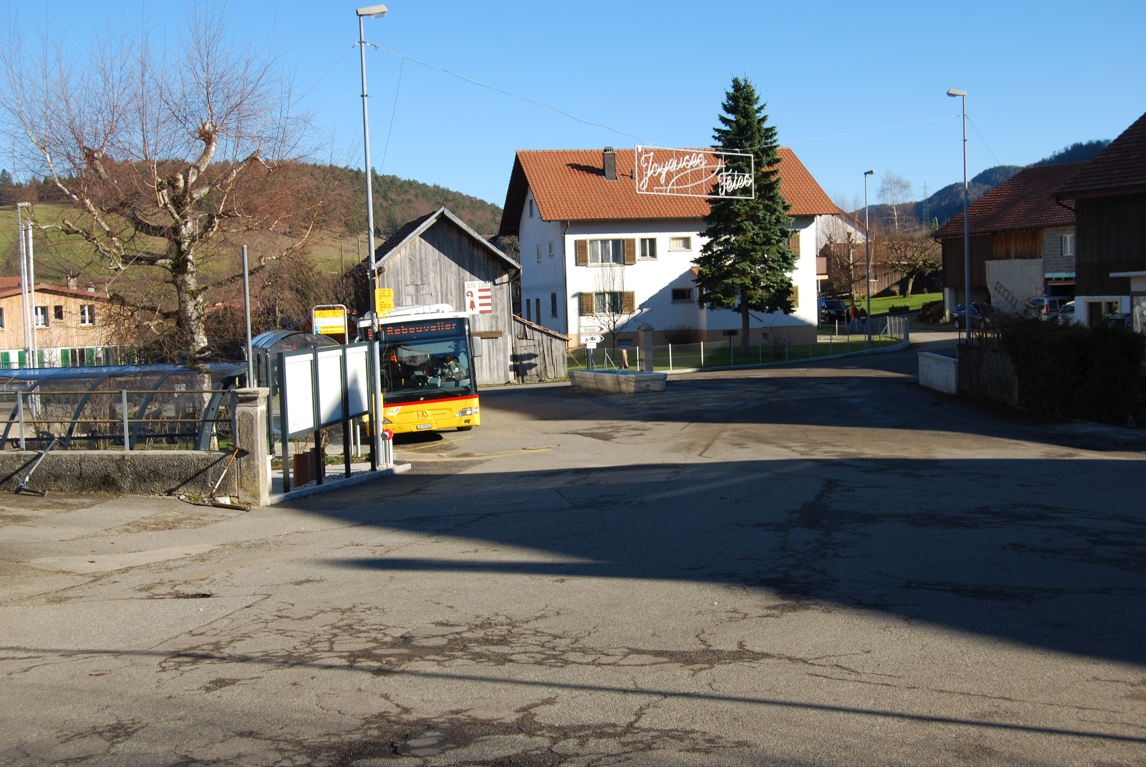 Rebeuvelier, canton of Jura, SwitzerlandEsperanto: Rebeuvelier, Kantono Ĵuraso, Svislando